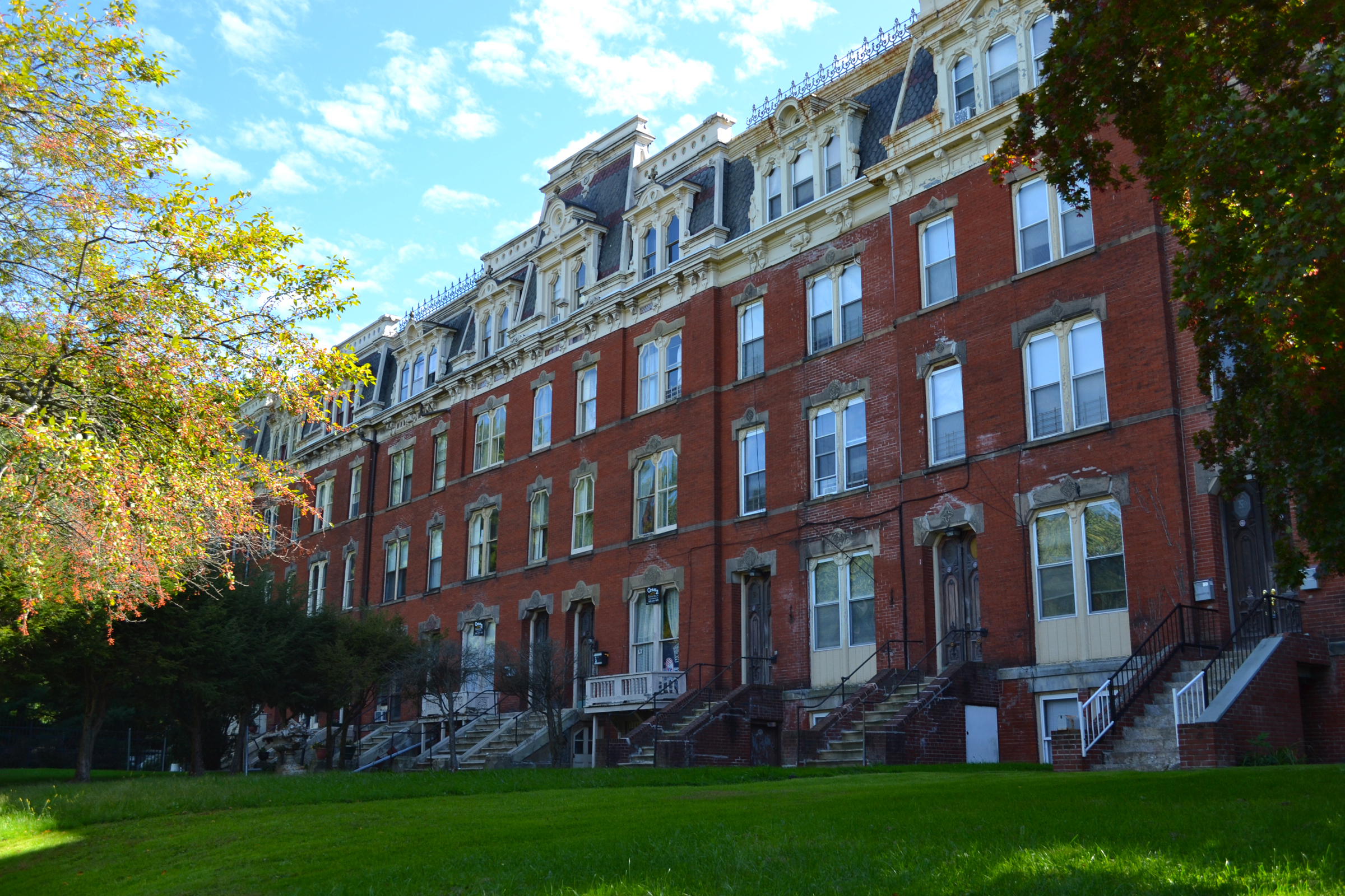 Eastman Terrace 1-10 Eastman Terr, Poughkeepsie, NY. Northern facades of row houses.